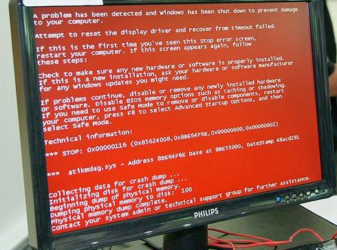 The Red Screen of Death on Windows Vista.